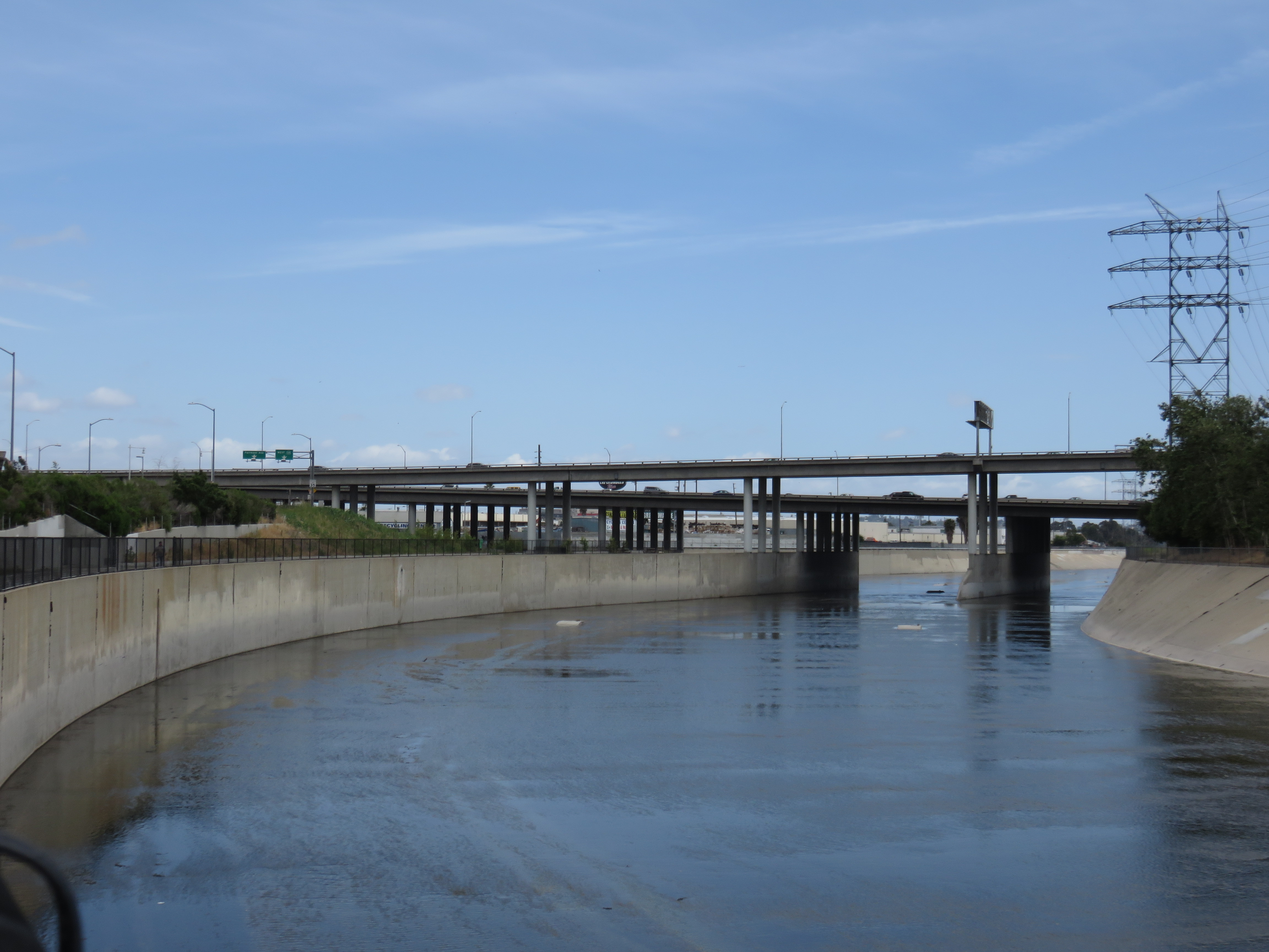 California Route 134 bridge over the Los Angeles River in Glendale and Los Angeles, California in 2019